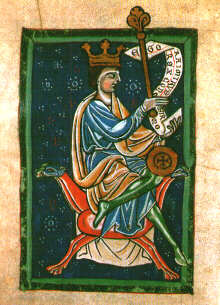 Ramiro III, king of Lion.